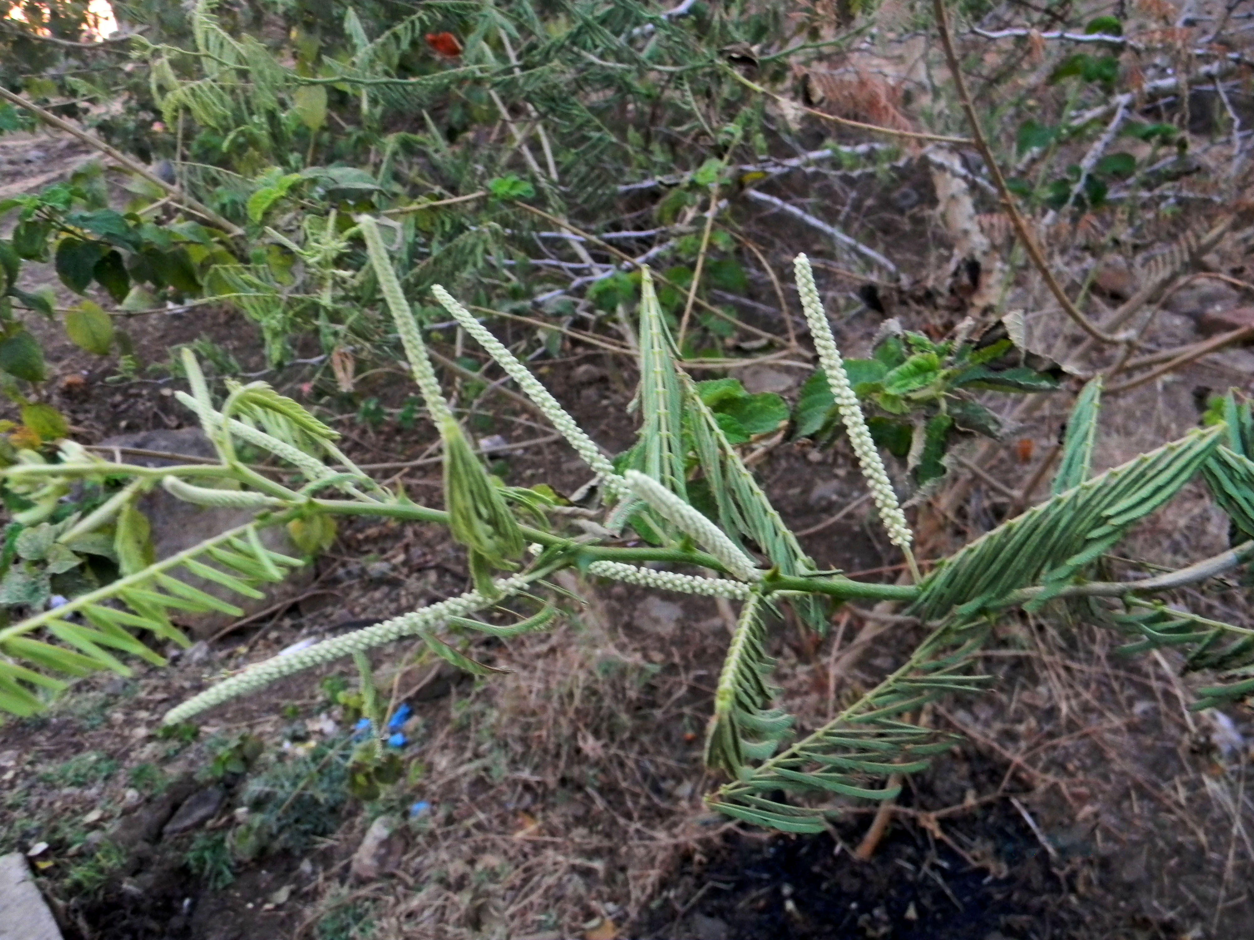 Gum Acacia or Khair is a medicinal plant, native to India and sub Sahara Africa.